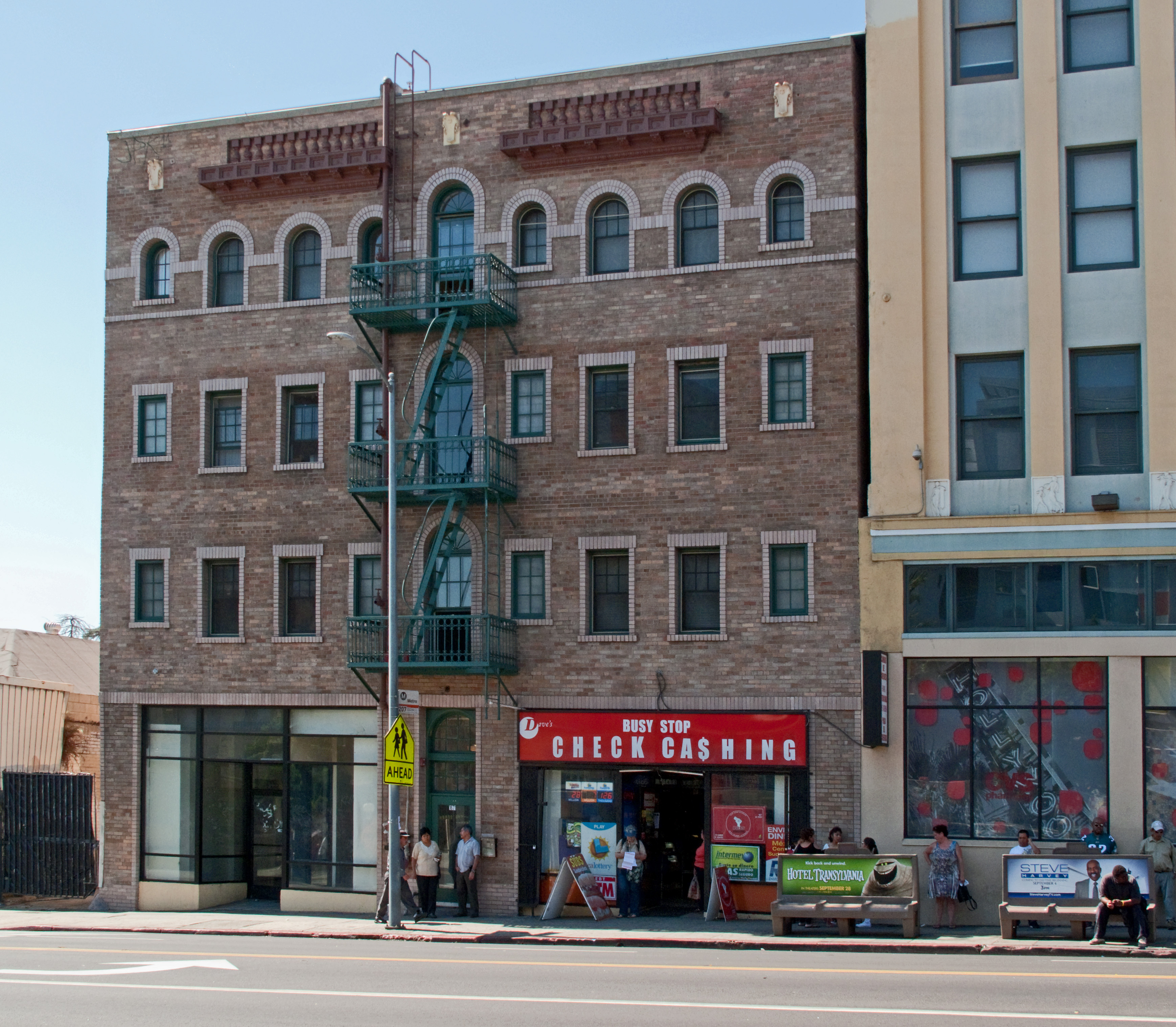 The Bricker Building, 1671 North Western Avenue, Los Angeles. This is just south of Hollywood Boulevard.